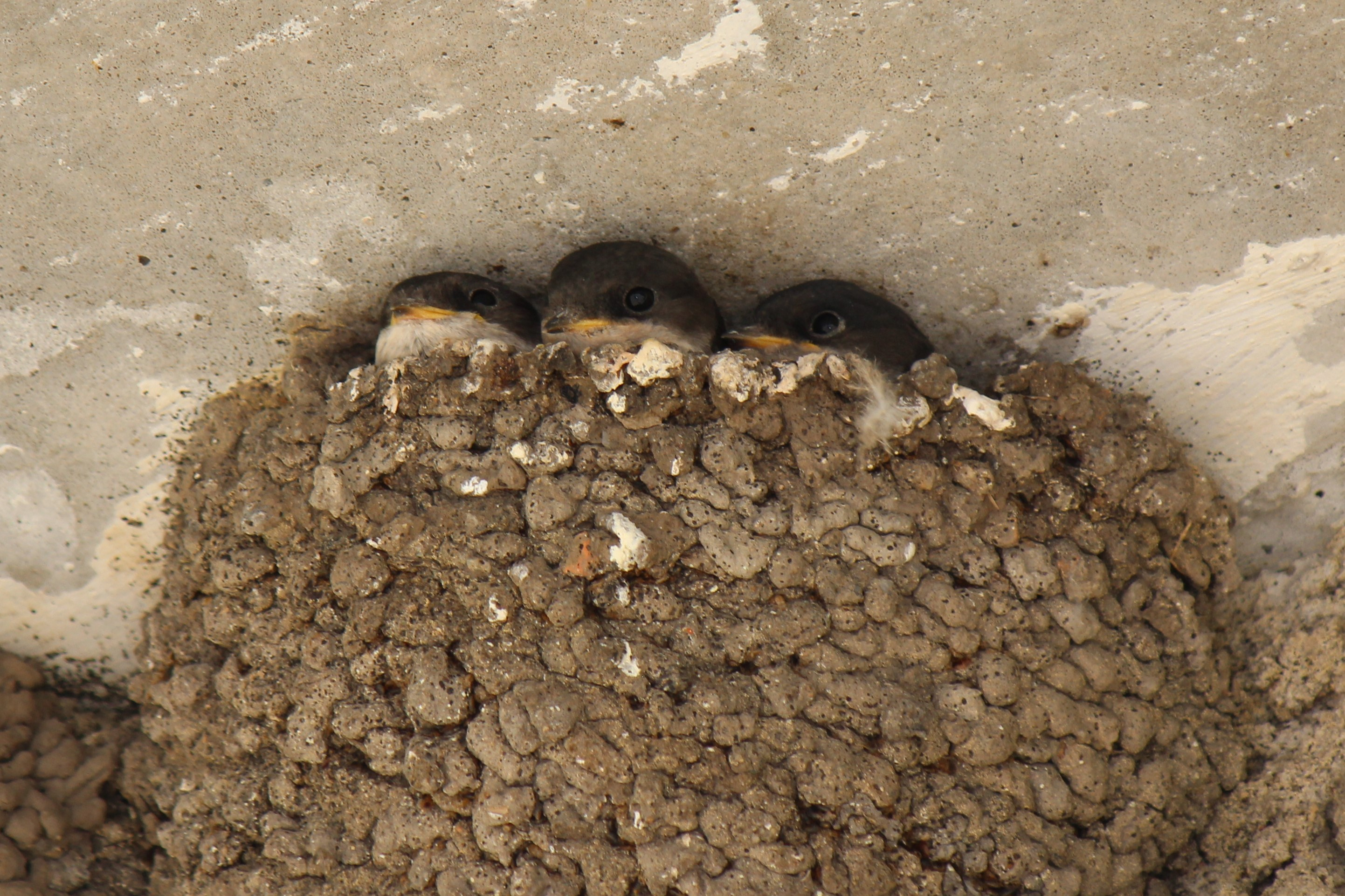 Chicks in a nest